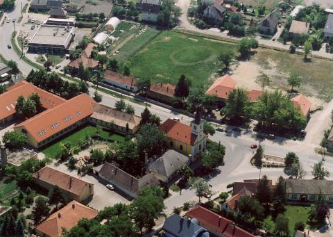 Bugyi, Hungary, aerial photography